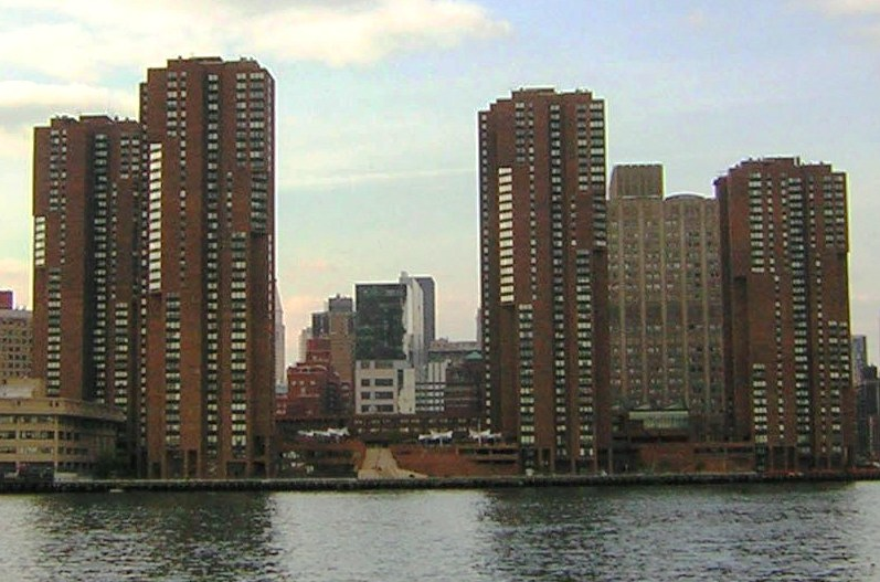 Waterside Plaza in early afternoon, taken from a boat in the East River. Other versions: 150px Author: User:Jim.henderson, cropped by Beyond My Ken (talk) 02:13, 15 July 2010 (UTC)